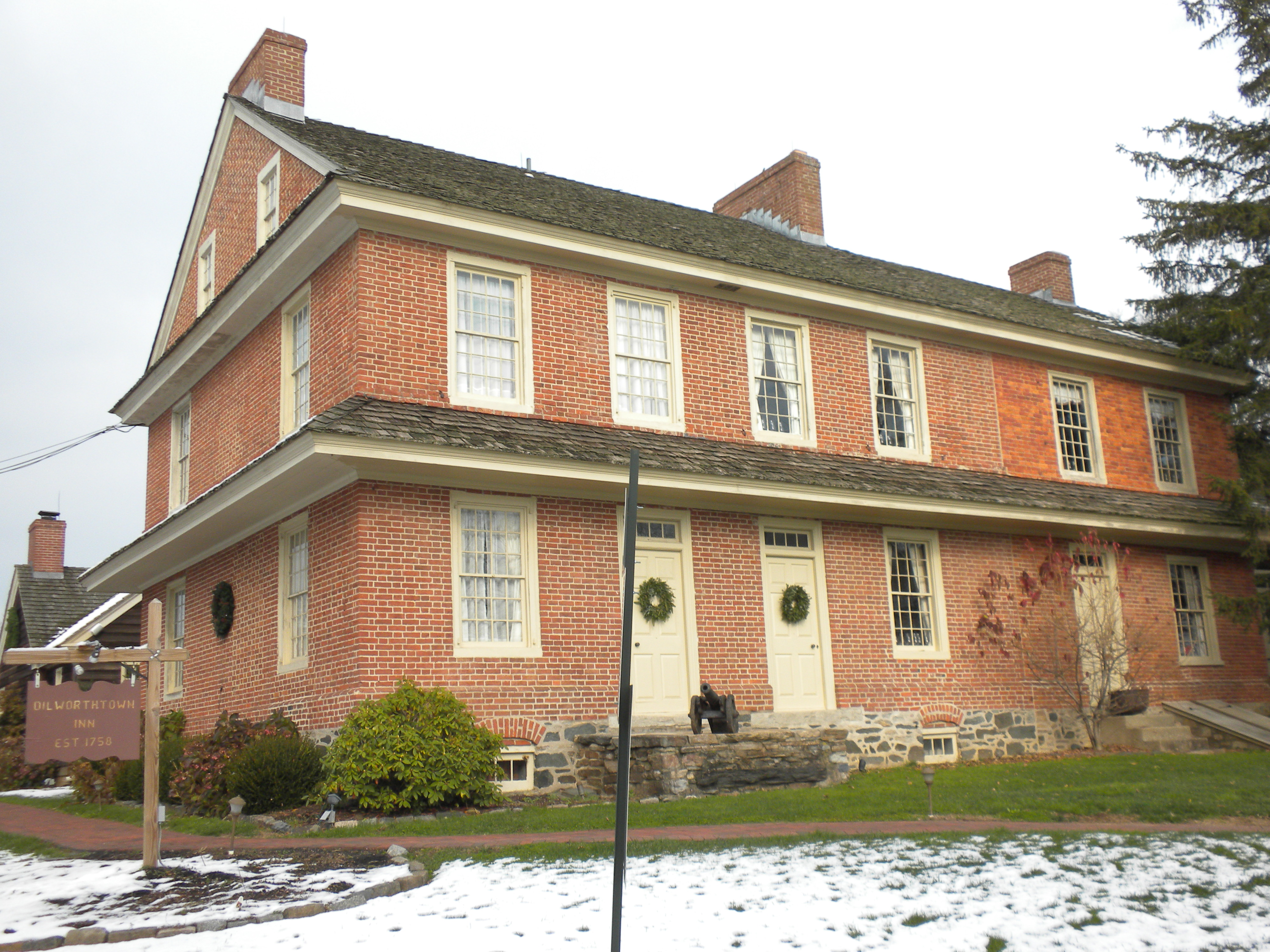 Dilworthtown Inn in Dilworthtown, Chester County, PA. Part of the Dilworthtown Historic District NRHP - near site of Battle of Brandywine.This photo is my own work and I donate it to the public domain.